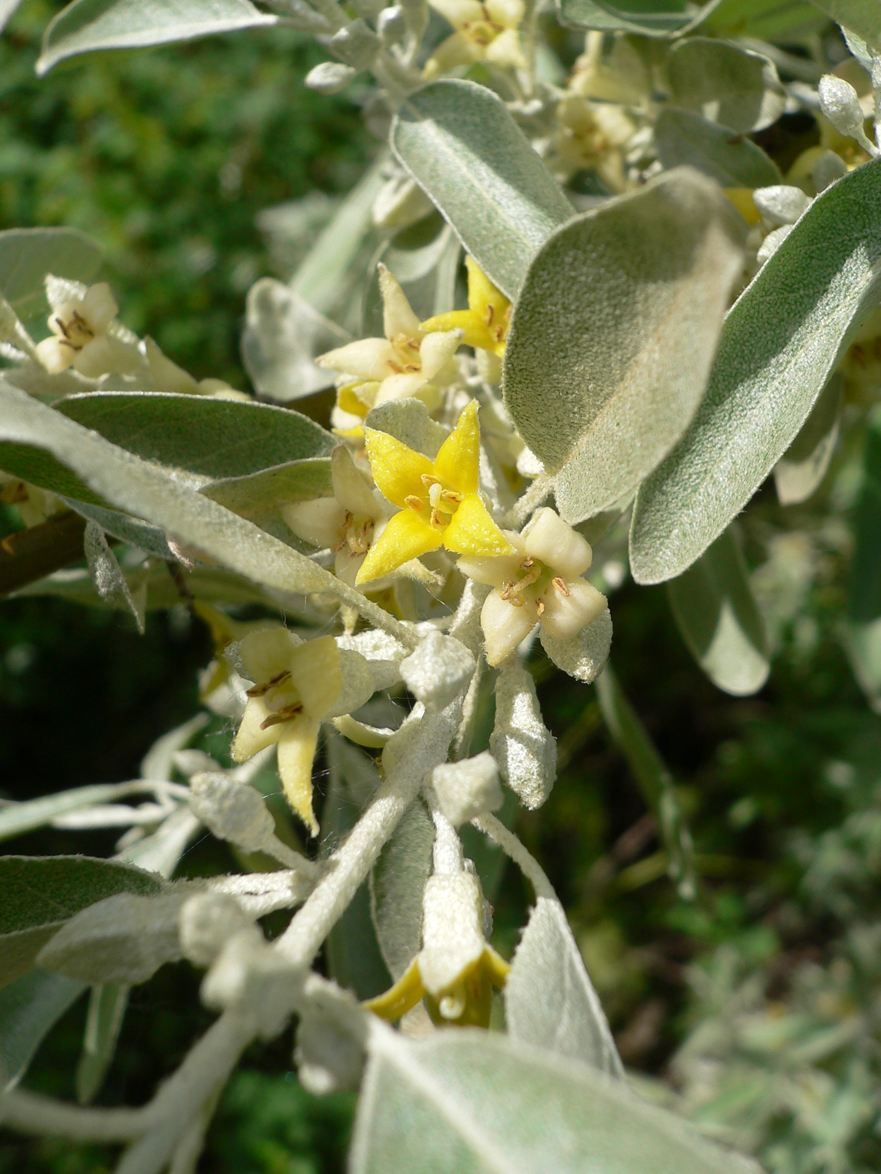 Oleaster Elaeagnus angustifolia about 5 m high, Görlitzer Park, Berlin-Kreuzberg, Germany.